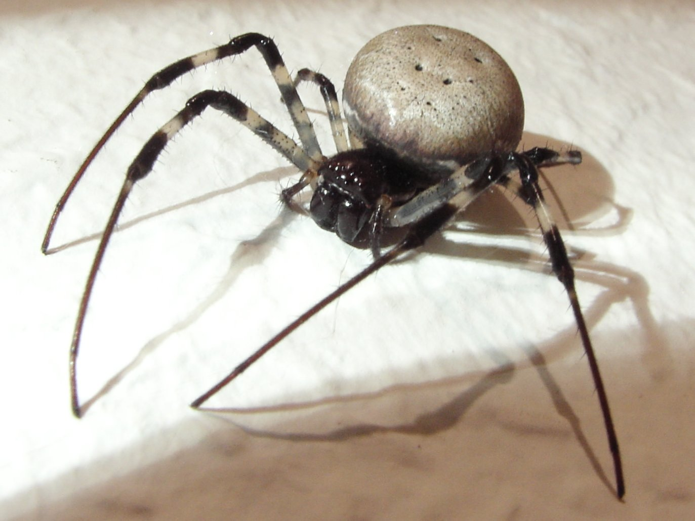 Nephilengys livida female from Cologne Zoo, Germany.